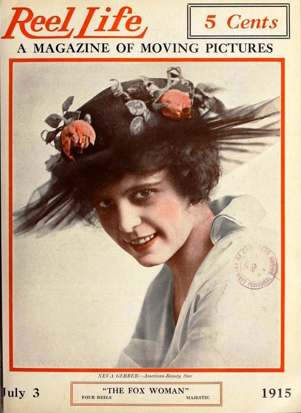 Actress Neva Gerber (1891 – 1974) on the cover of the July 3, 1915 Reel Life magazine.